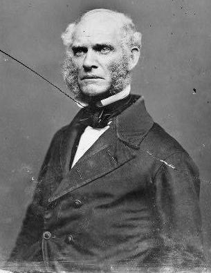 Joseph Bailey, US Representative from Pennsylvania